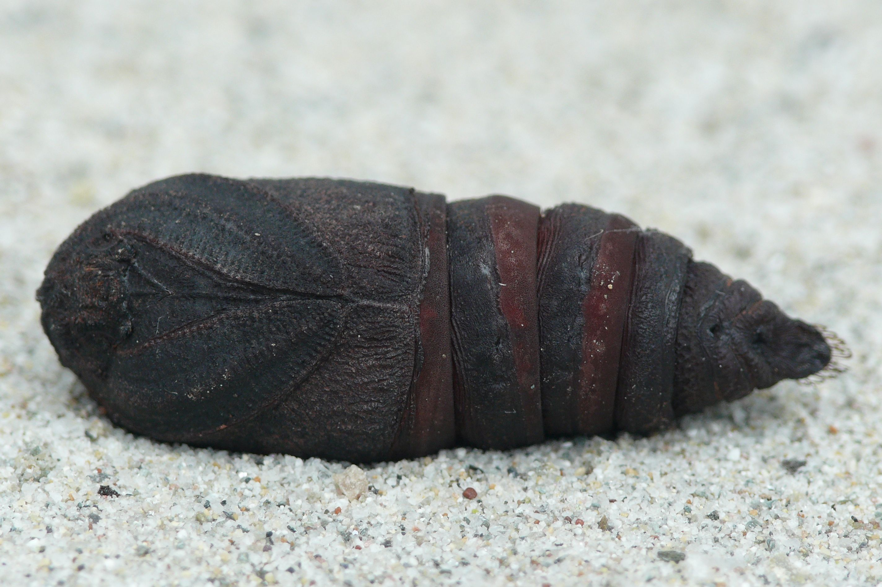 Pupa of the Tau Emperor (Aglia tau)